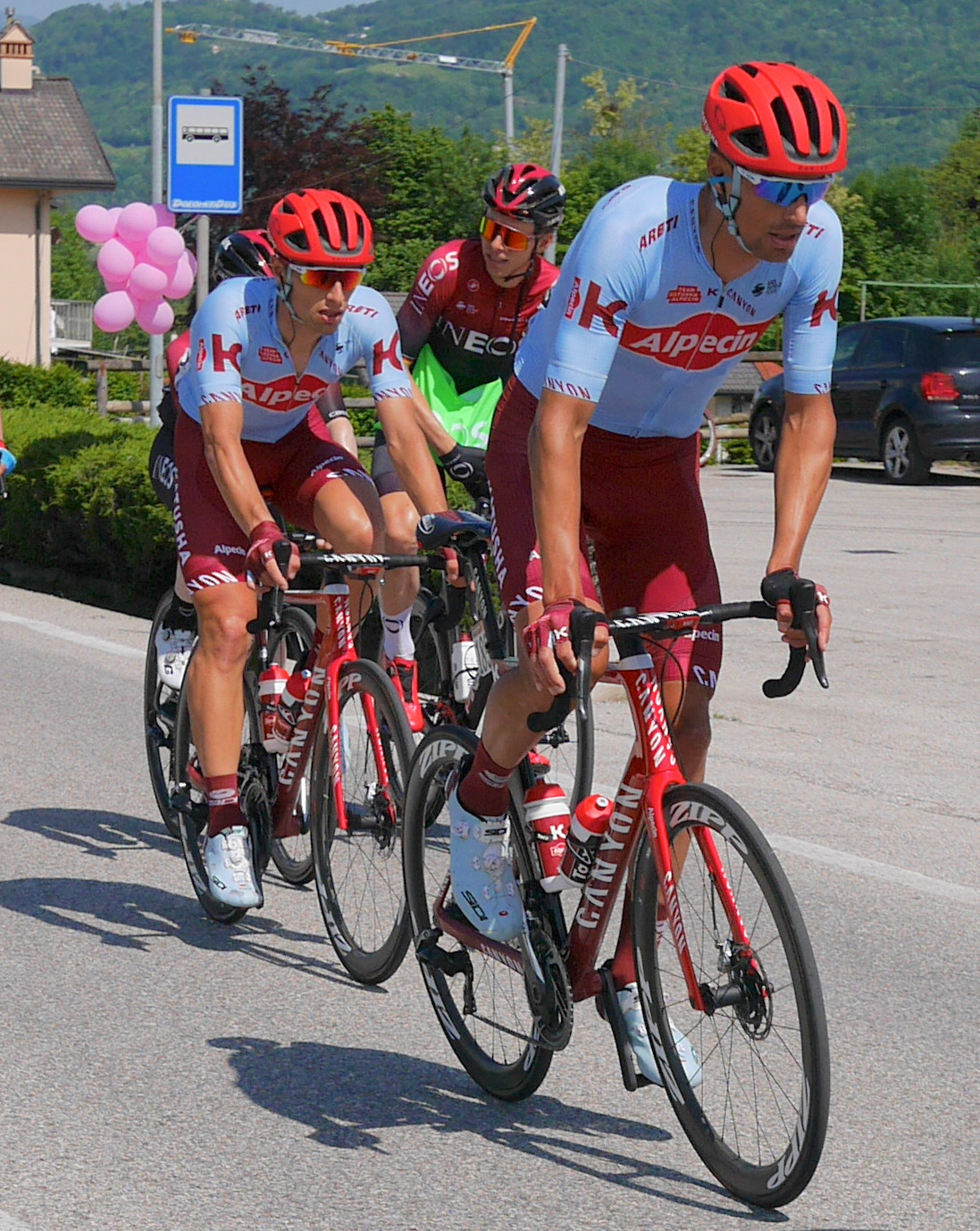 Katusha-Alpecin 2019 Giro d'Italia, Stage 19